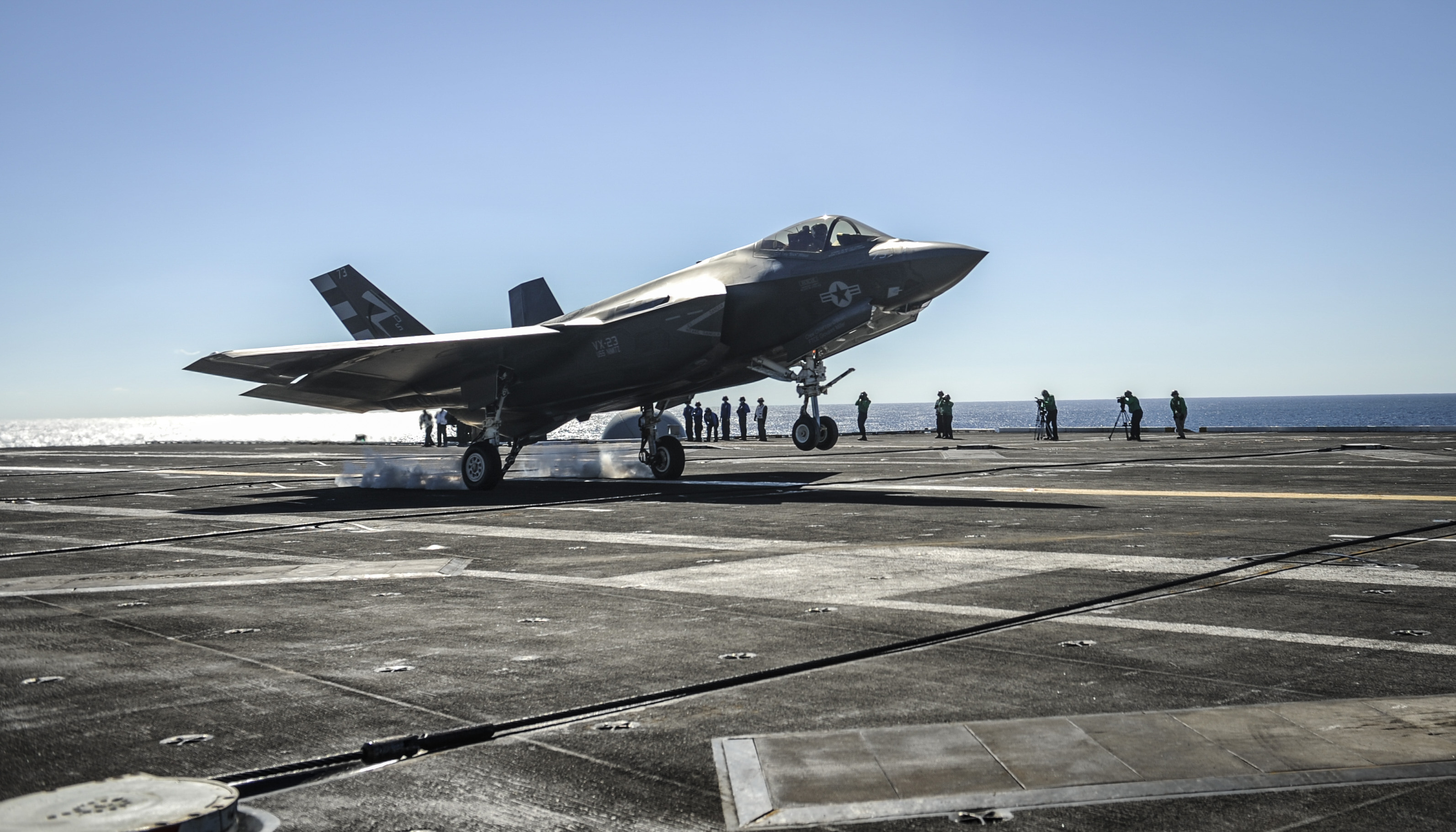 A U.S. Navy Lockheed Martin F-35C Lightning II of Air Test and Evaluation Squadron 23 (VX-23) landing aboard the aircraft carrier USS Nimitz (CVN-68) in the Pacific Ocean. The F-35C was conducting initial at-sea developmental testing expected to last two weeks.